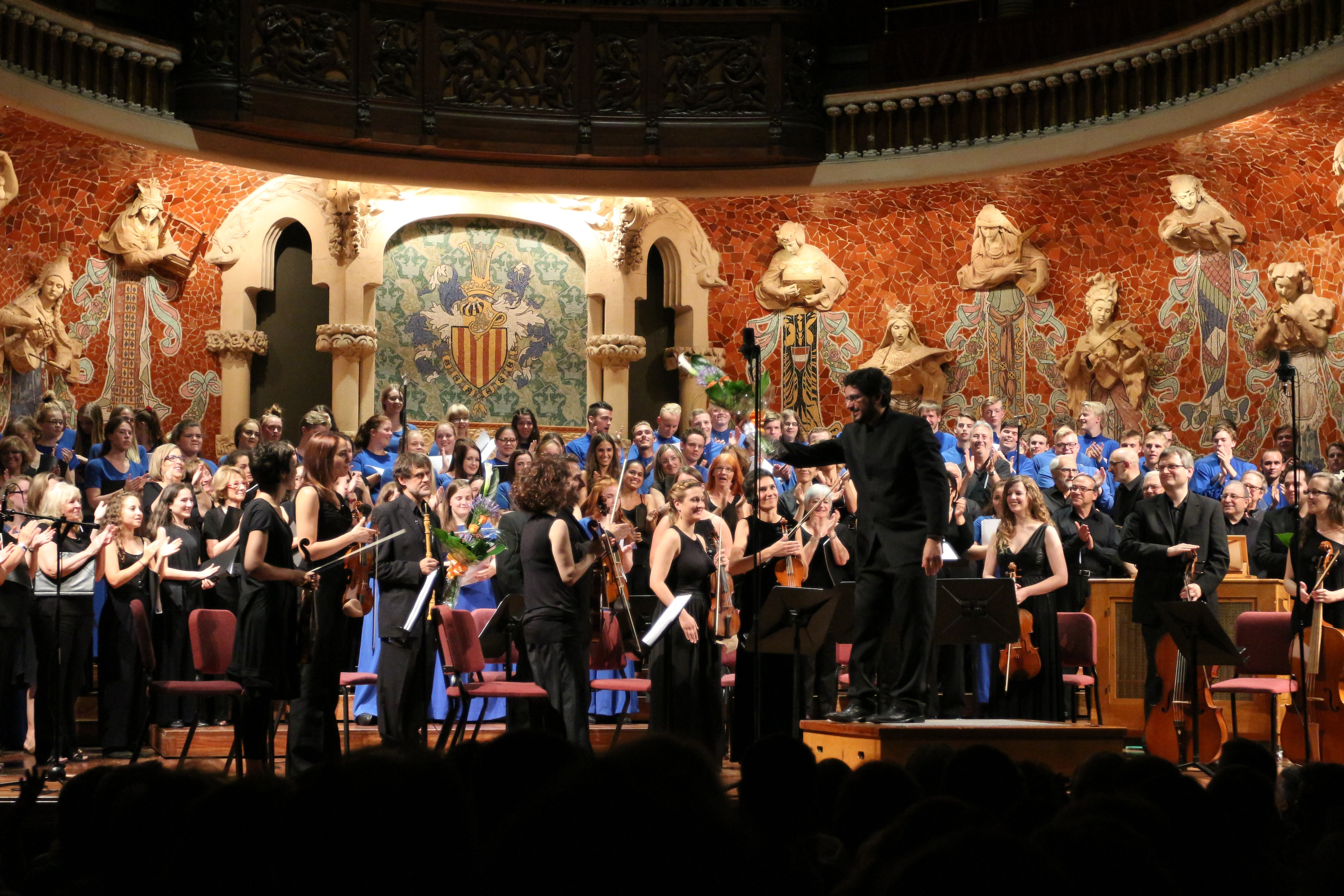 49 International Choral Music Festival. Closing ceremony. 12/07/2014 - Palau de la Música Catalana (Barcelona). OCBBA - Orquestra de Cambra Barroca de Barcelona - Guest director: Daniel Mestre